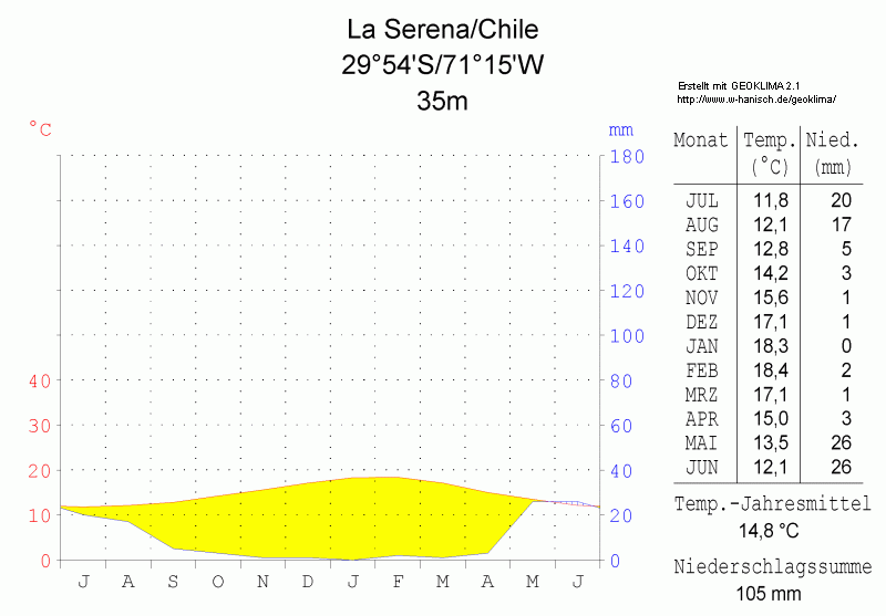 climate chart in the format by Walther and Lieth, metric, °Celsisus and millimeters, made with Geoklima 2.1